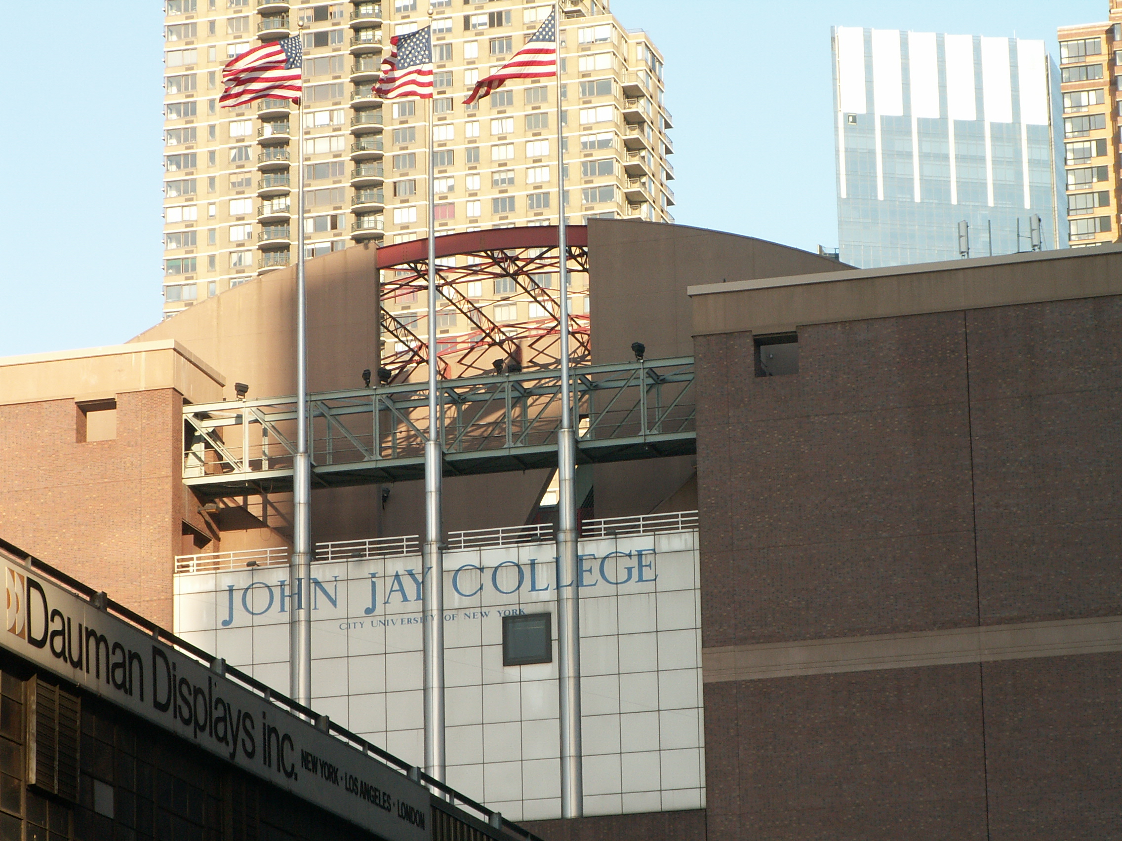 John Jay College